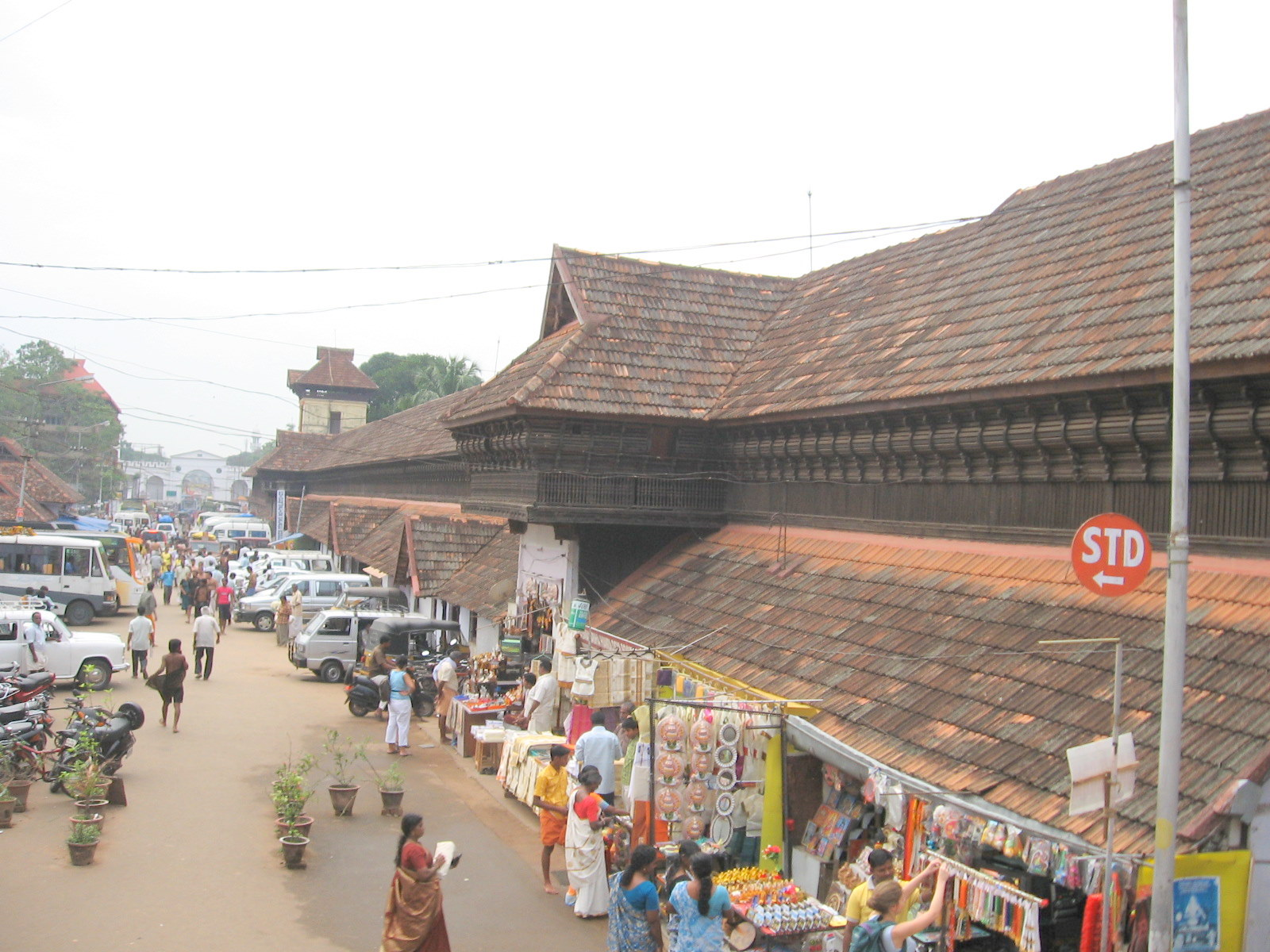 The road that leads to Sree Padmanabhasawamy Temple at Thiruvanthapuram